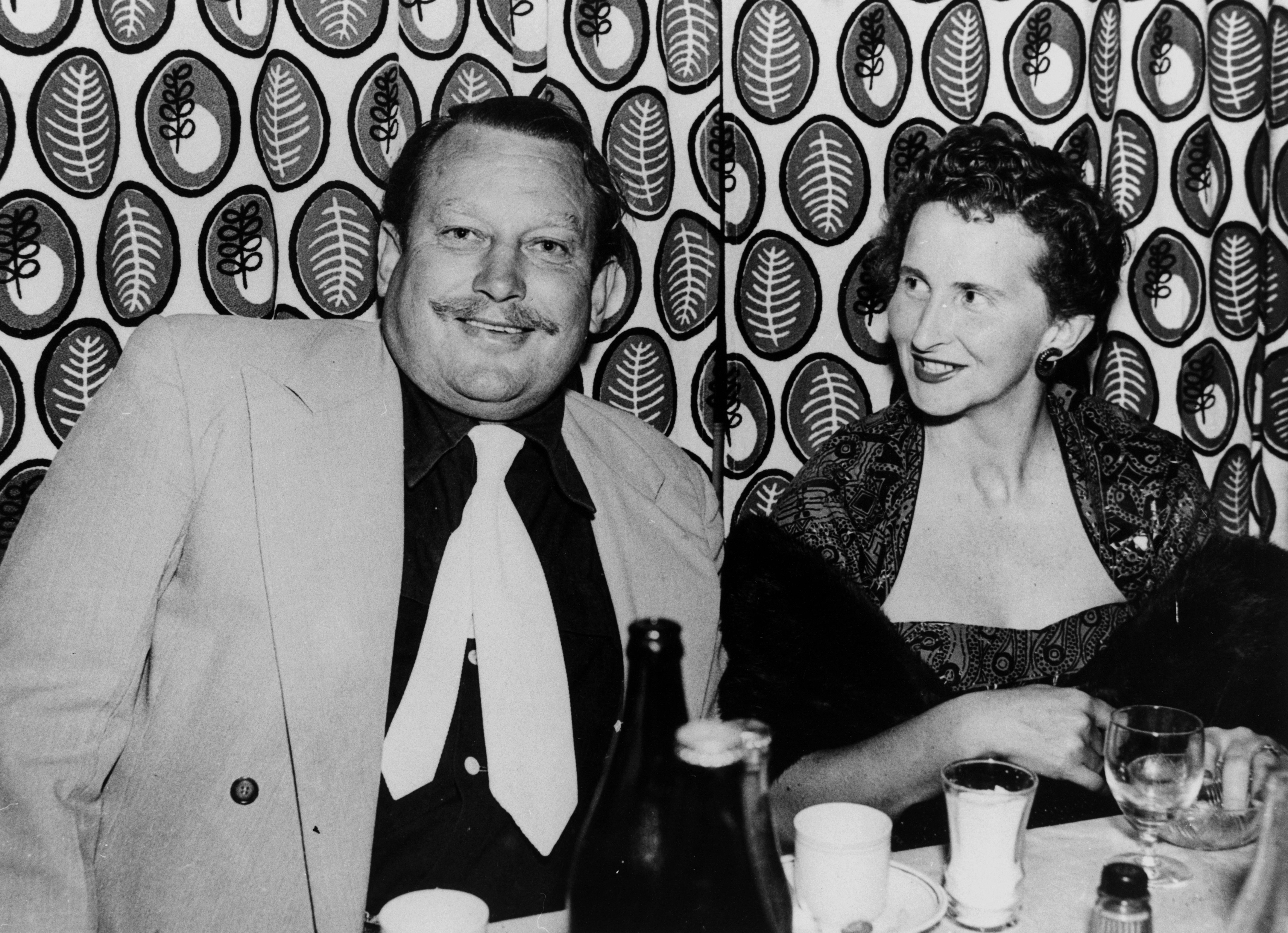 Photographer: Unidentified Location: Queensland, Australia View this image at the State Library of Queensland: Information about State Library of Queensland’s collection: You are free to use this image without permission. Please attribute State Library of Queensland.